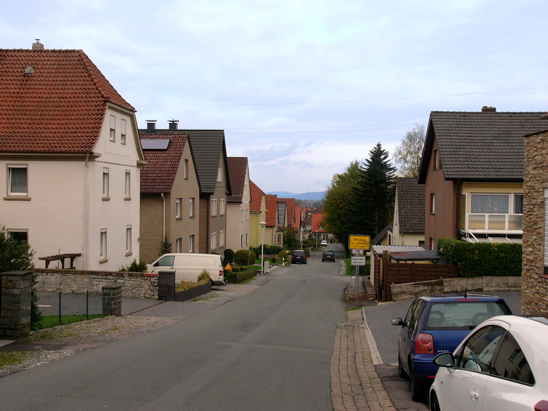 Bergstraße in Oerlinghausen, Germany